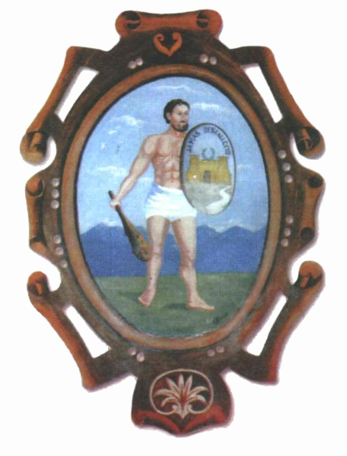 Huanta crest